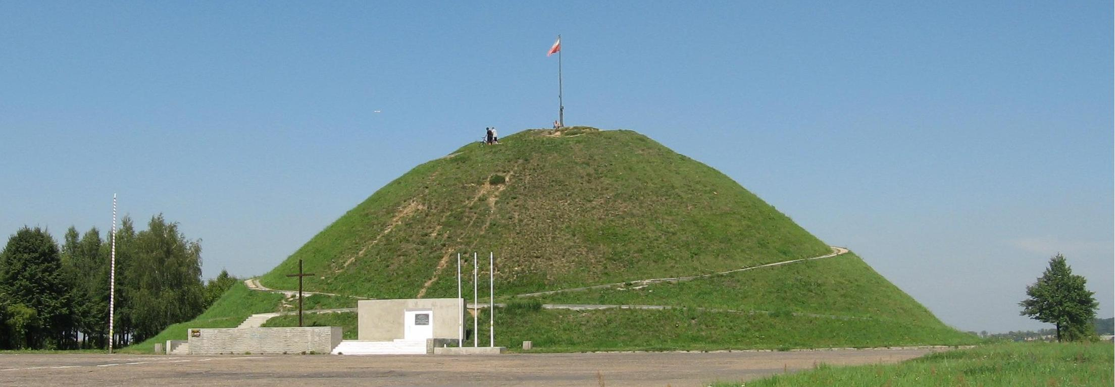 Liberation Mound in Piekary Śląskie, Poland